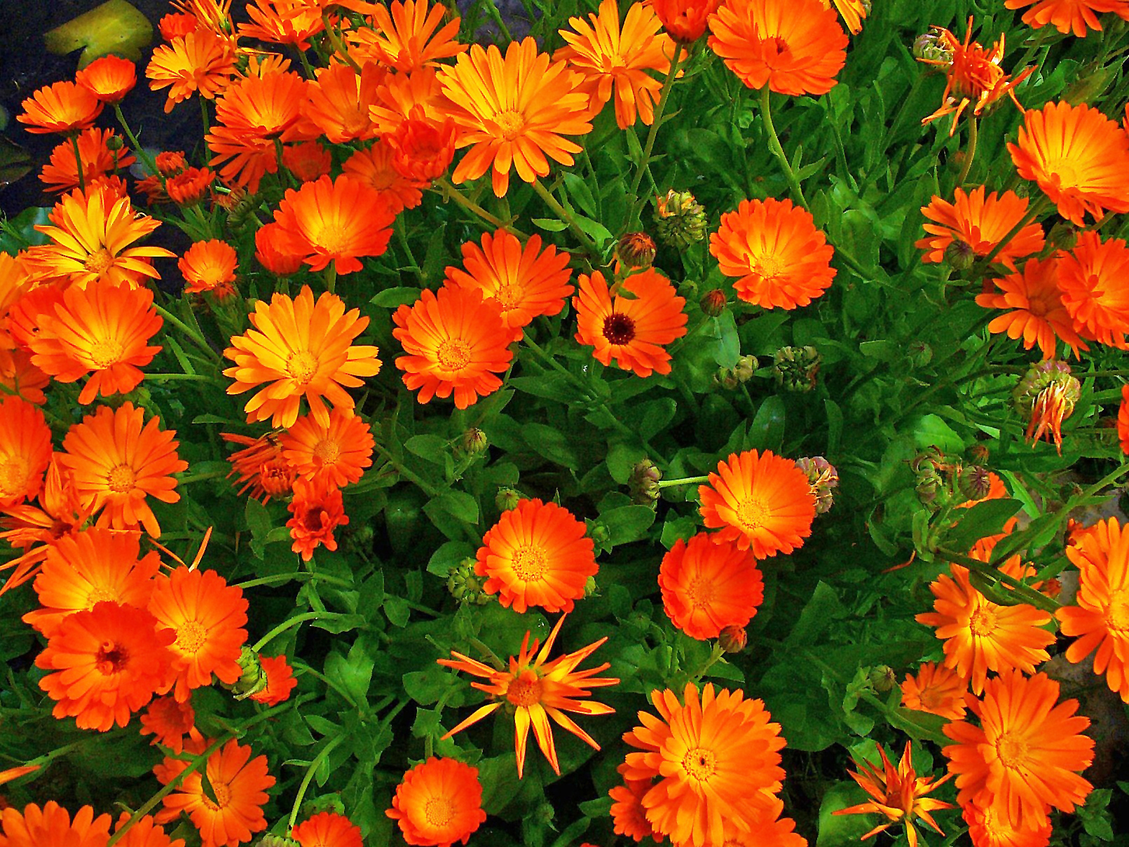 Calendula officinalis, Asteraceae, Pot Marigold, habitus. The fresh aerial parts of the blooming plants are used in homeopathy as remedy: Calendula (Calen.)